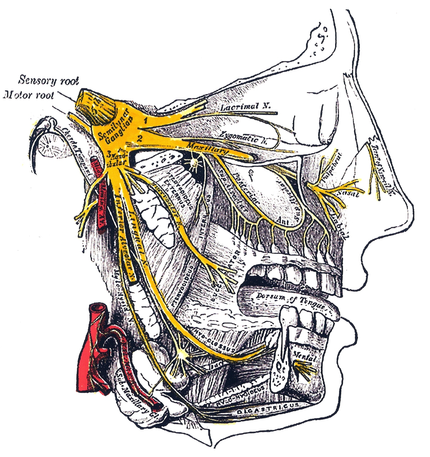 Identical to Wikipedia , except that the facial nerve and the auriculotemporal nerve have been removed, in order to emphasize the trigeminal nerve. Author: btarski Date: 2006-22-06